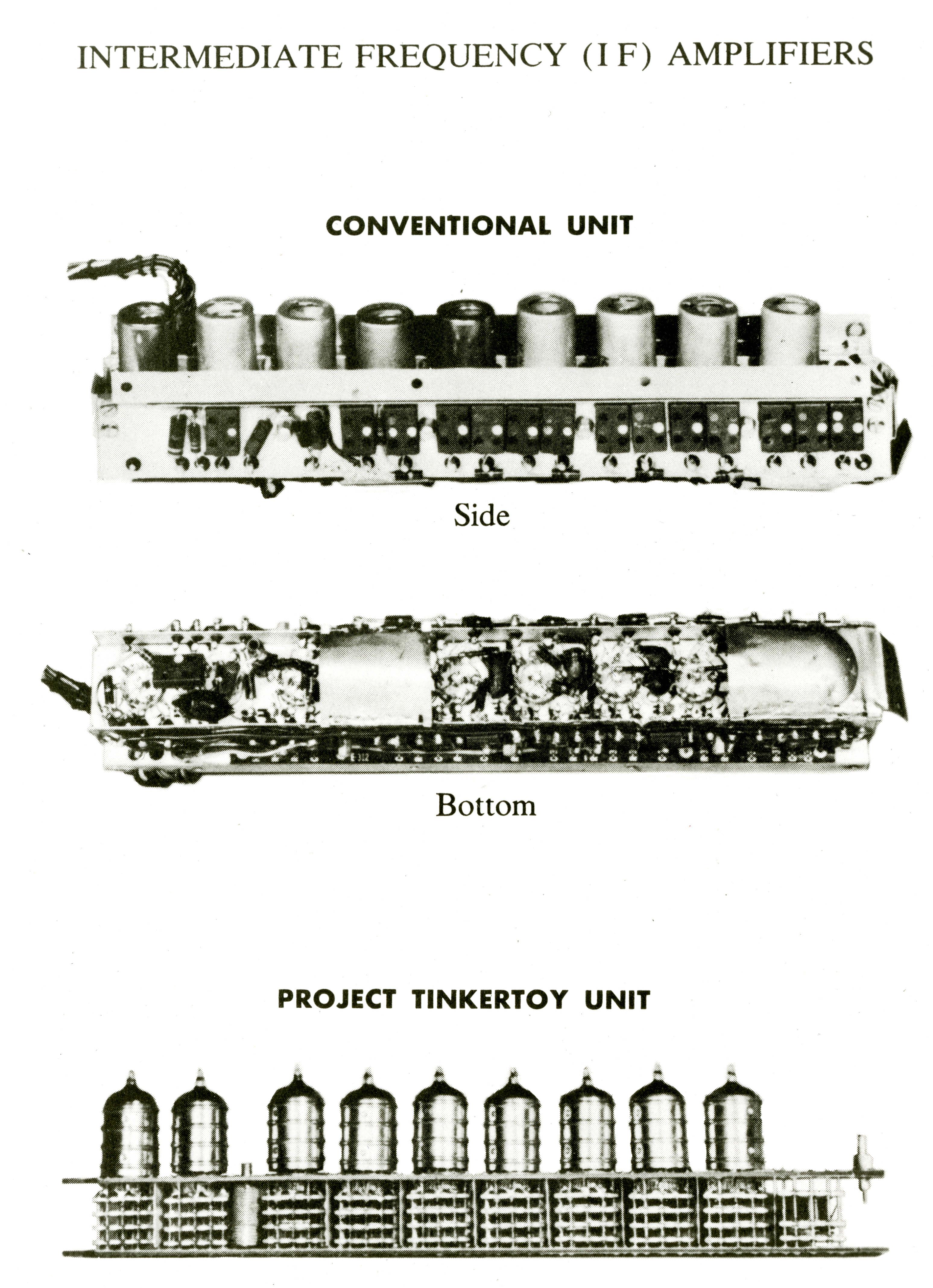 The cost of this unit (top), constructed in large numbers by conventional manual techniques employing conventional component parts, was compared with the costs of producing it by the manual techniques of Modular Design of Electronics (MDE) and by the Mechanized Production of Electronics (MPE). The inverted unit (center) illustrates the rat's nest of wires and parts required in conventional construction. The bottom unit is the modularized version.